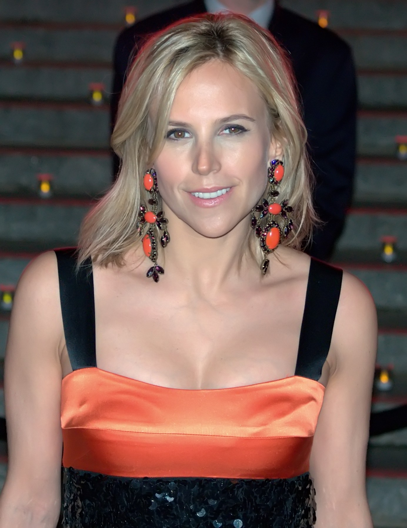 Tory Burch at the Vanity Fair celebration for the 2009 Tribeca Film Festival.